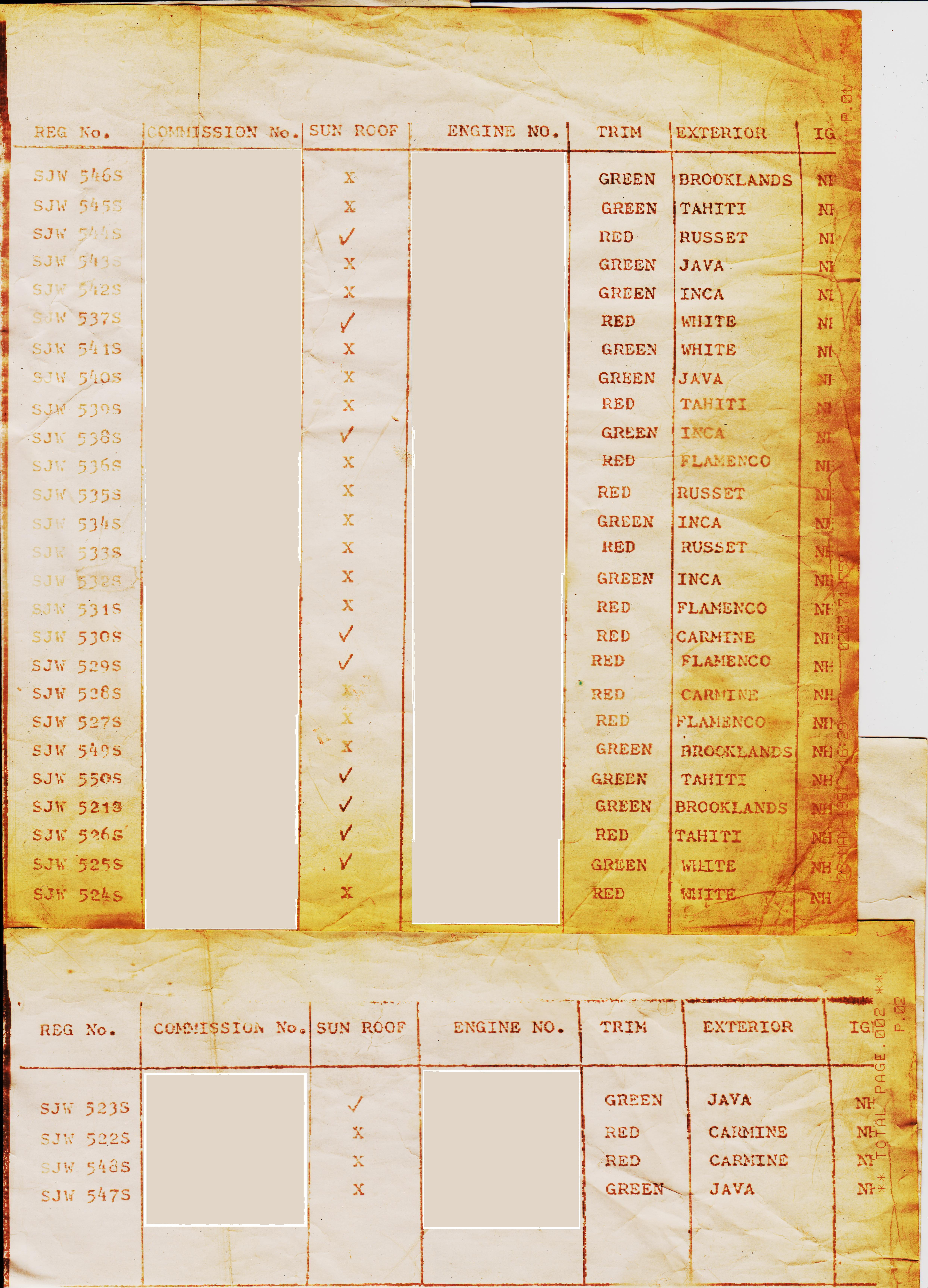 Fax sent on the 8th May 1991 from Rover Cars to me, giving registration numbers, trim, and paint details of the 30 TR7 Sprints belonging to the BL press garage in 1977-8. Sent with no caveats. Chassis and engine numbers obscured to prevent use in uttering forged TR7 Sprints.